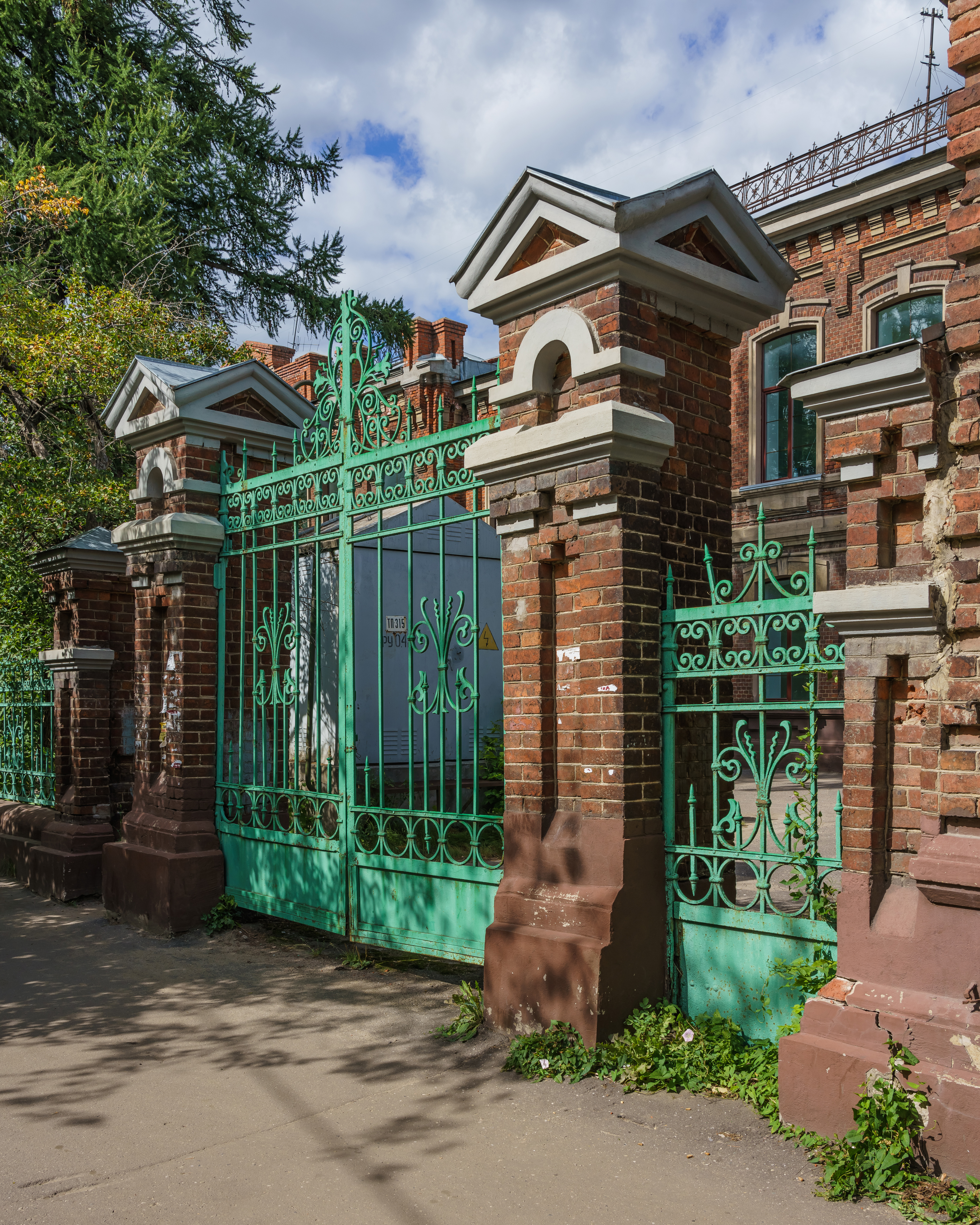 Kuvaev Hospital in Ivanovo, Russia